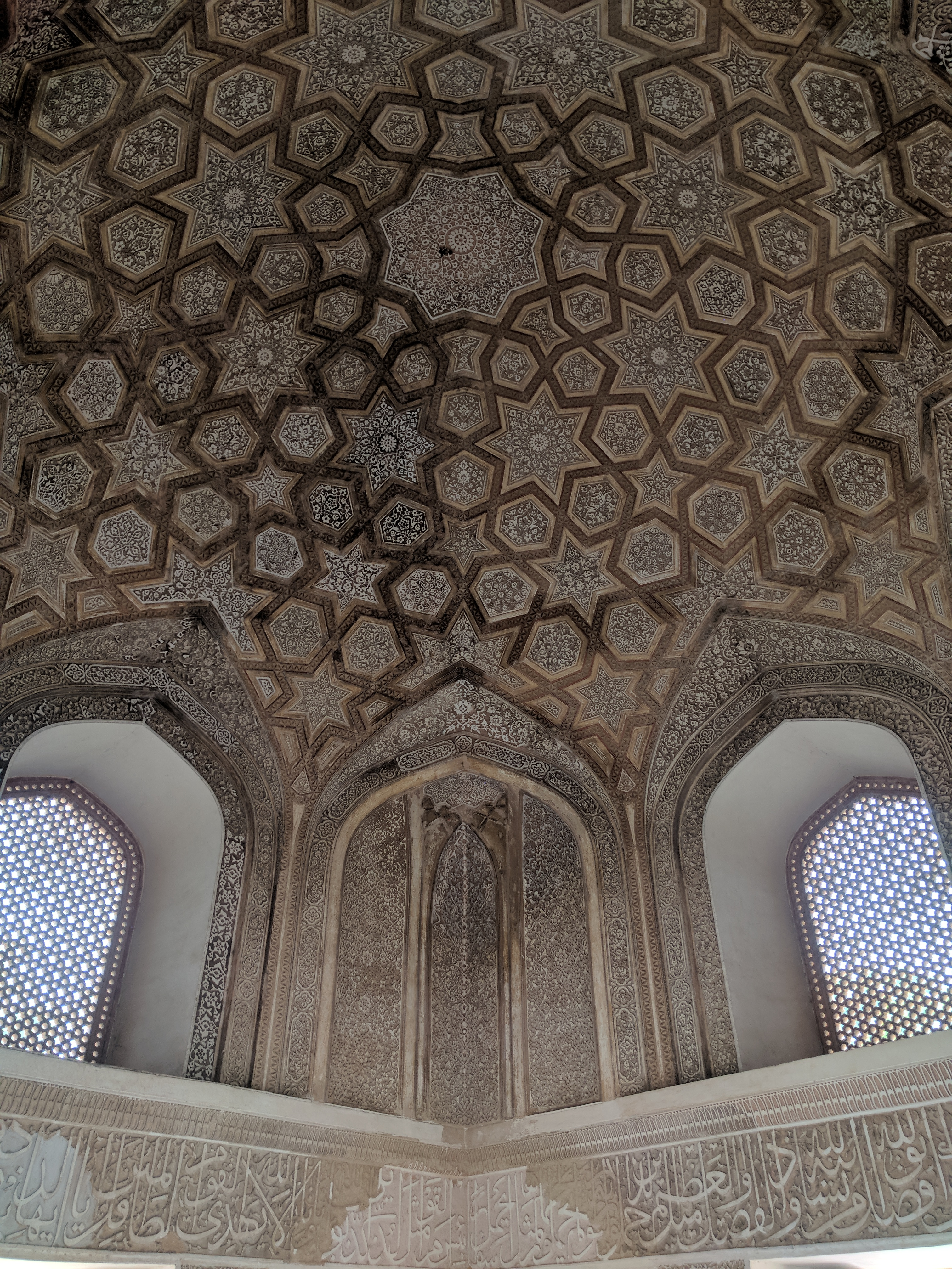 Inside Sunder Burj, Sunder Nursery